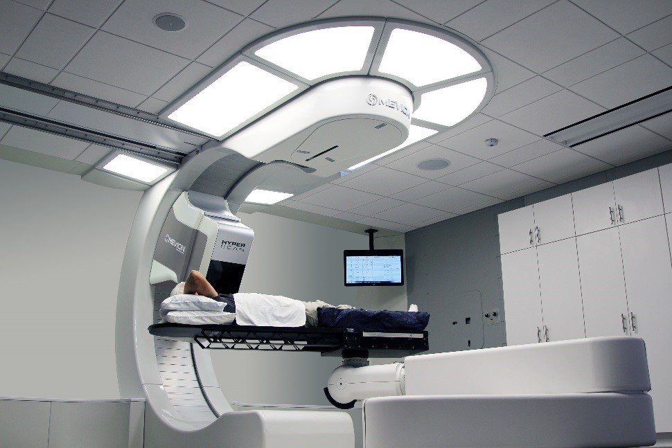 The MEVION S250i™ with HYPERSCAN™.